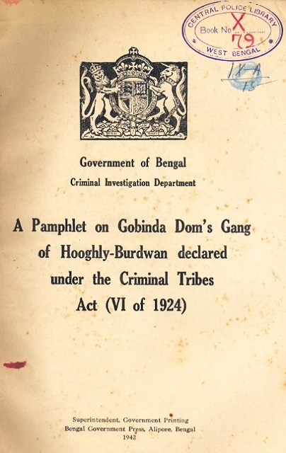 A Pamphlet on Gobinda Doms Gang, under the Criminal Tribes Act (VI of 1924)